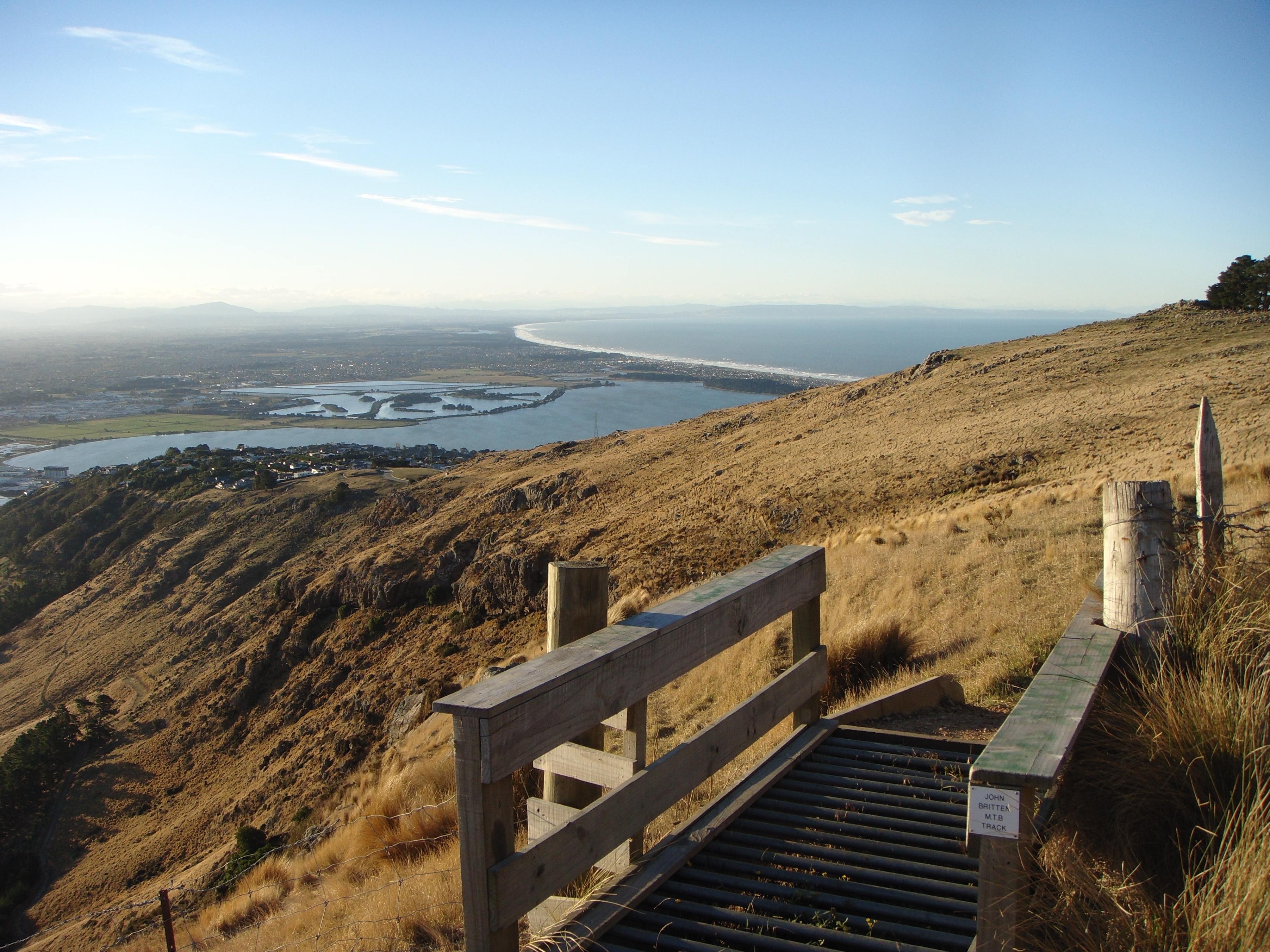 The Port Hills in May 2010. John Britten mountain bike track.